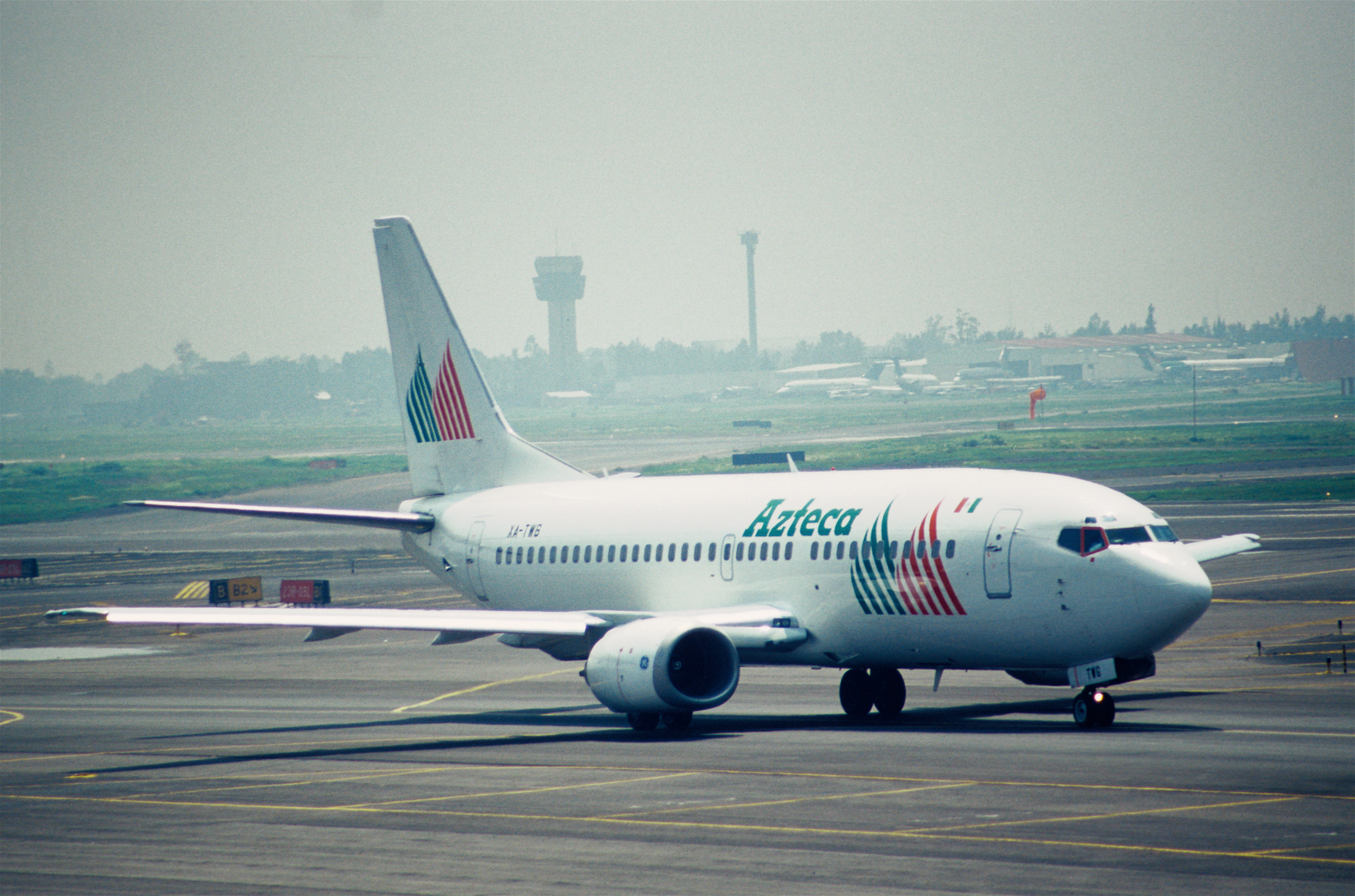 This Boeing 737-3K2 took its first flight on February 4, 1986...(c/n 23412/ 1198) 17/03/1986 Transavia Airlines PH-HVG 10/11/1993 TAESA XA-SLK 27/04/1994 Transavia Airlines PH-HVG 16/11/1994 TAESA XA-STN 22/04/1995 Transavia Airlines PH-HVG 20/12/1995 TAESA XA-STN 24/04/1996 Transavia Airlines PH-HVG 01/12/1996 TAESA XA-STN 14/04/1997 Transavia Airlines PH-HVG 31/10/1998 Air Toulouse PH-HVG 29/03/1999 Transavia Airlines PH-HVG 01/12/1999 PALS N945PG 24/06/2000 Euro Sun TC-ESB 22/06/2001 Air Anatolia TC-ESB 11/01/2002 PALS N551FA 27/11/2002 Lineas Aereas Azteca XA-TWG stored 06/2007